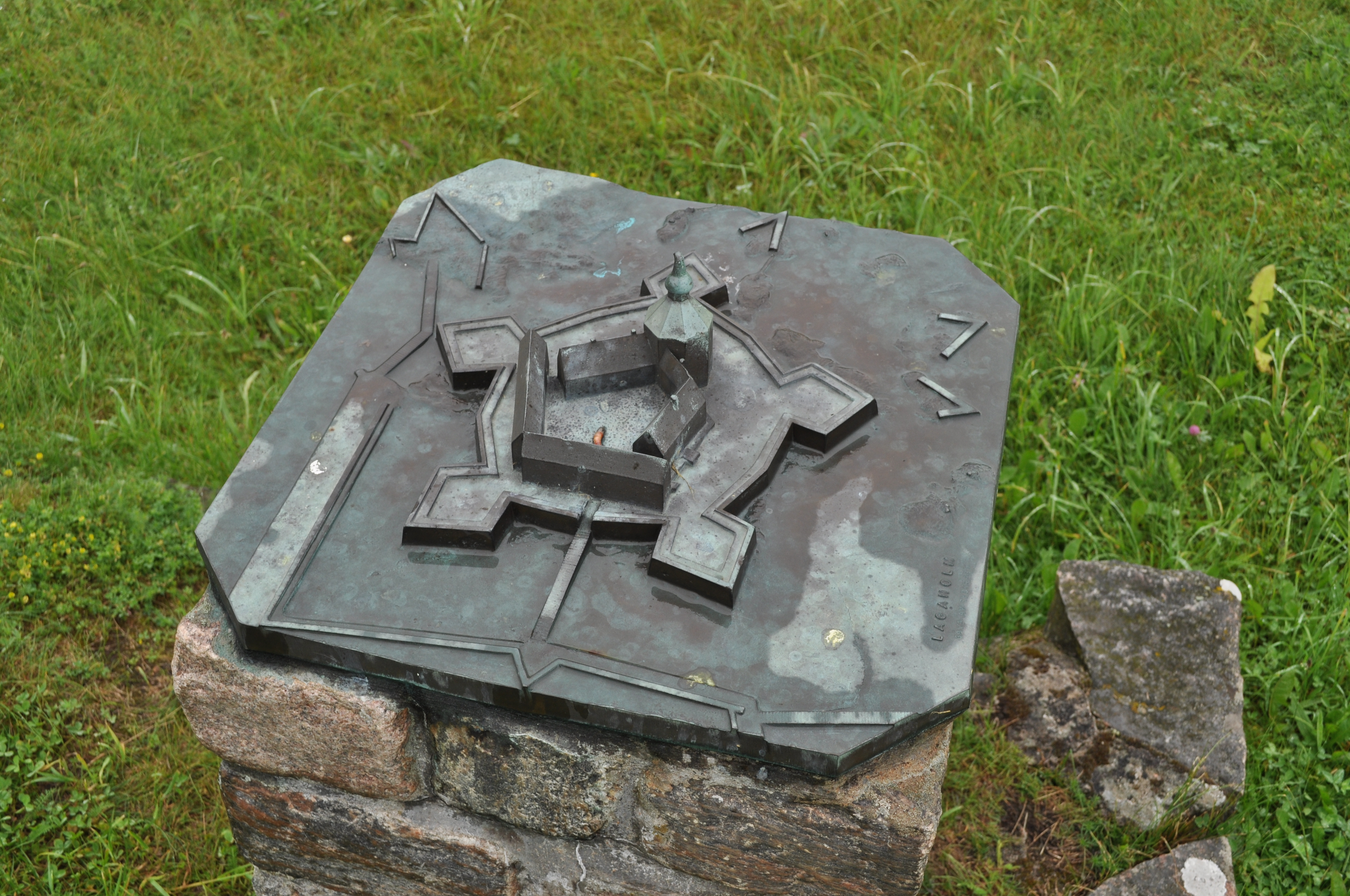 Model of Lagaholms slott.